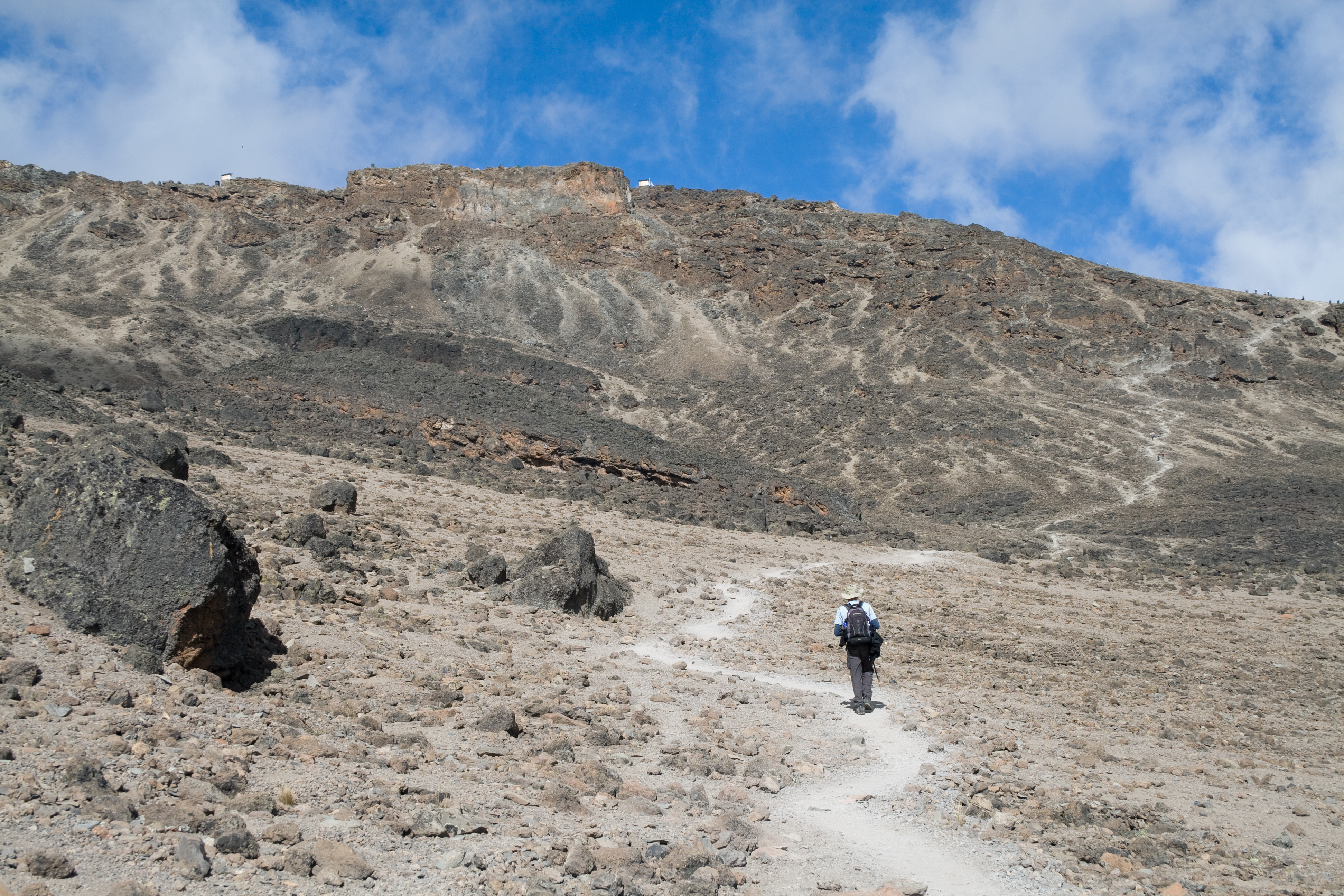 We got Barafu Huts in sight at the top of the hill. Last camp before summit.